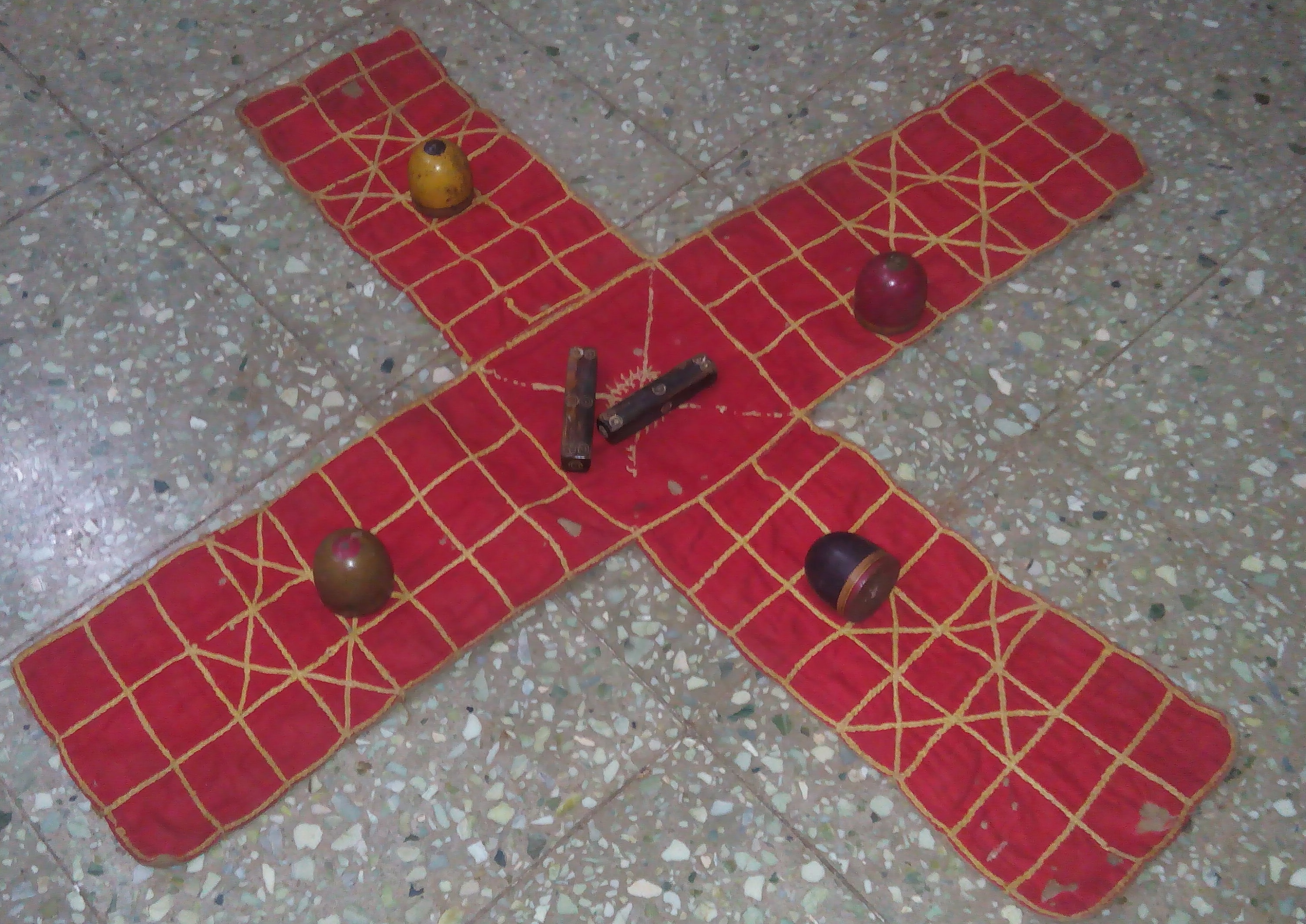 dice game of india